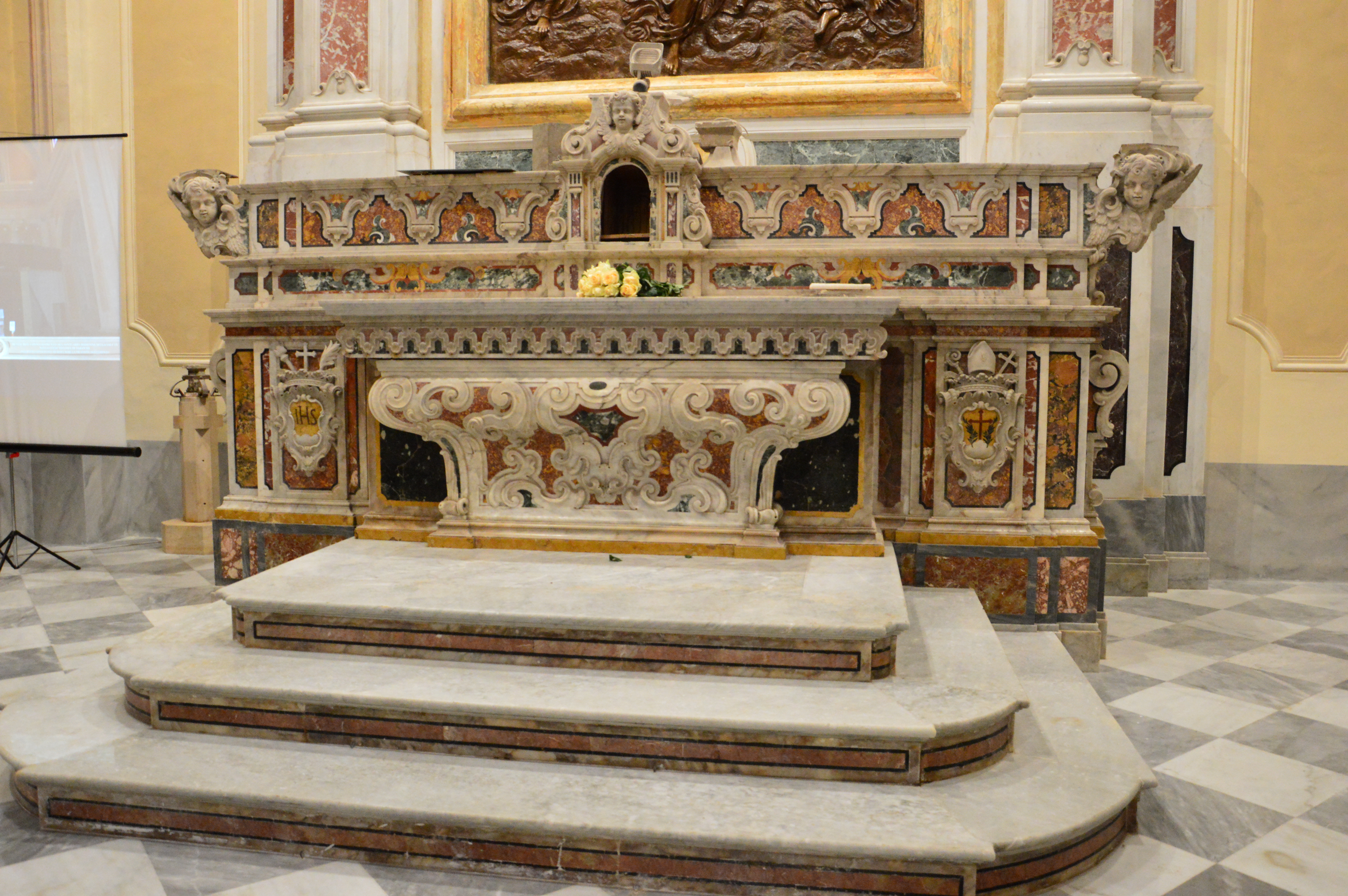 The high altar of the Sanctuary of Our Lady of Health in Taranto.